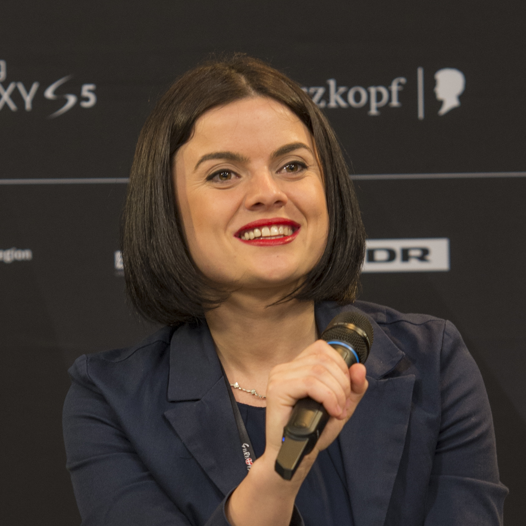 Herciana Matmuja at a Meet & Greet during the Eurovision Song Contest 2014 Copenhagen. (Help translate this text)